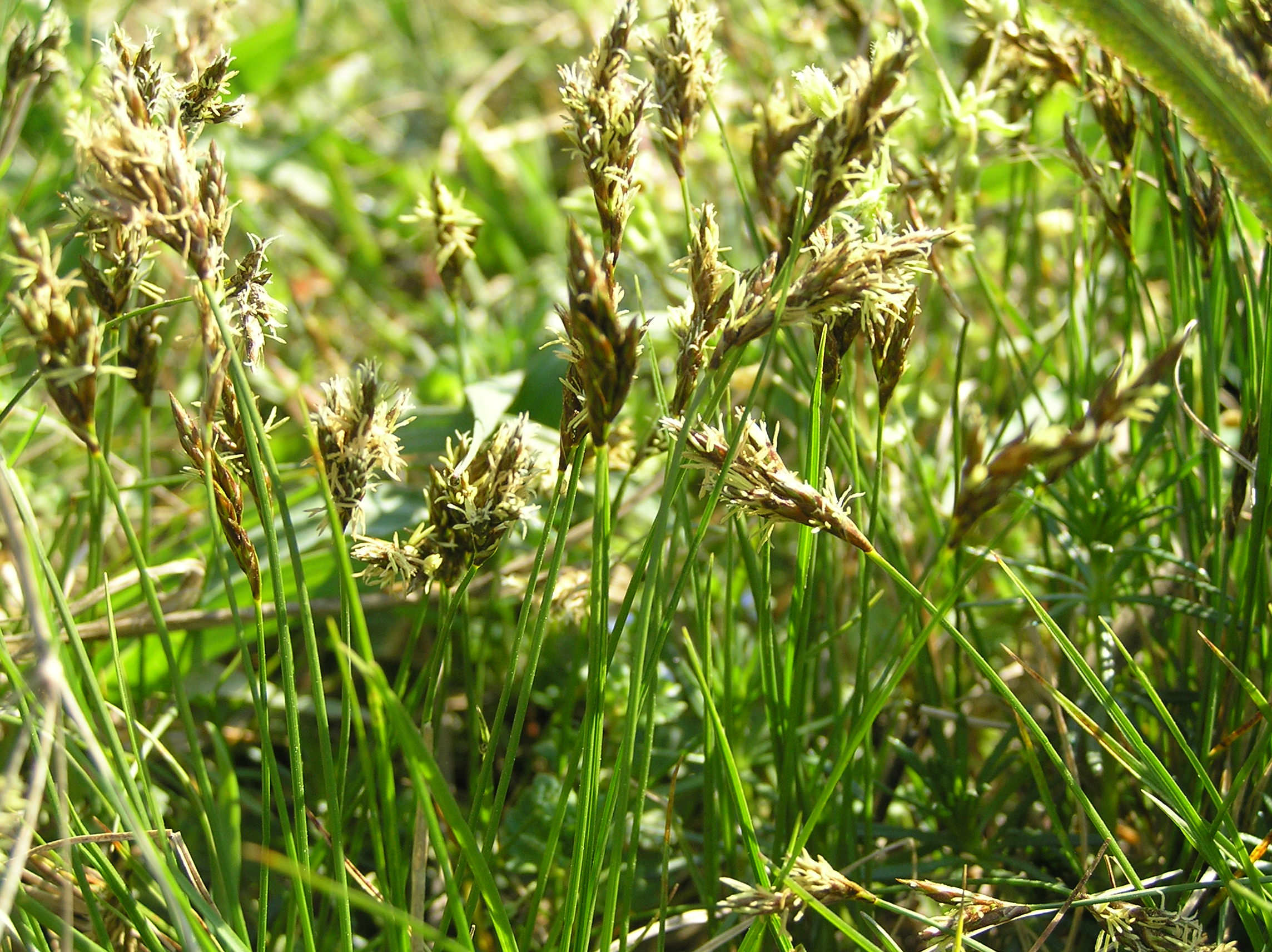 Carex praecox, Sedlec near Mikulov, Southern Moravia, Czech Republic